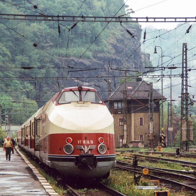 diesel multiple unit DR VT 18.16 in station Děčín, Czech Republic